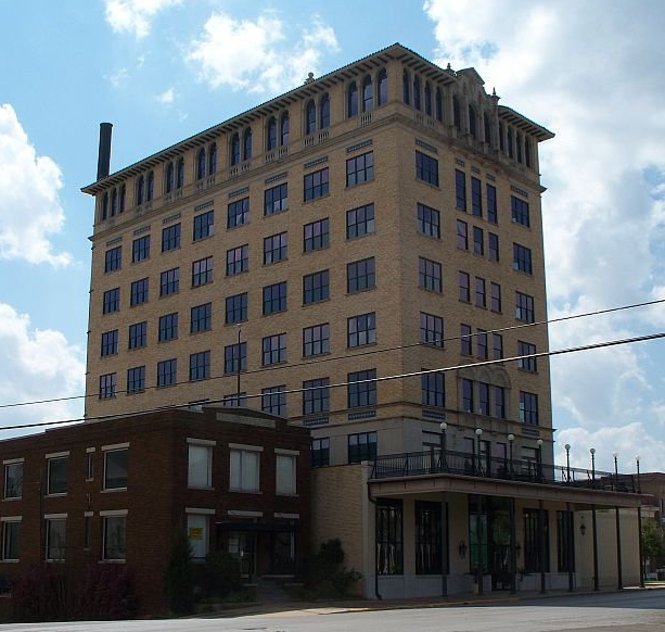 The Marshall Grand in Marshall, Texas was the former Hotel Marshall. Taken in 2011.